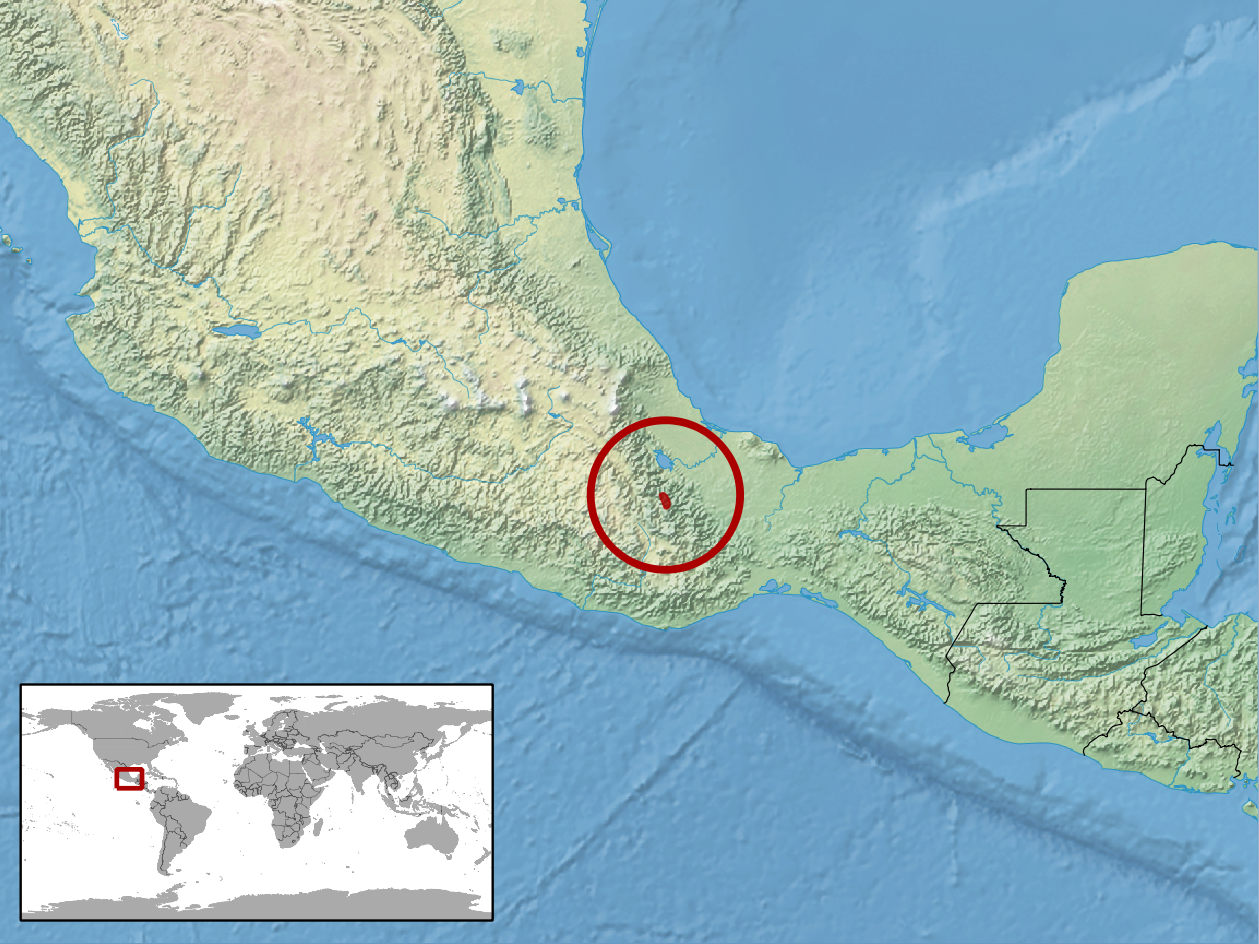 geographic distribution of Mesaspis juarezi (Native: Mexico)